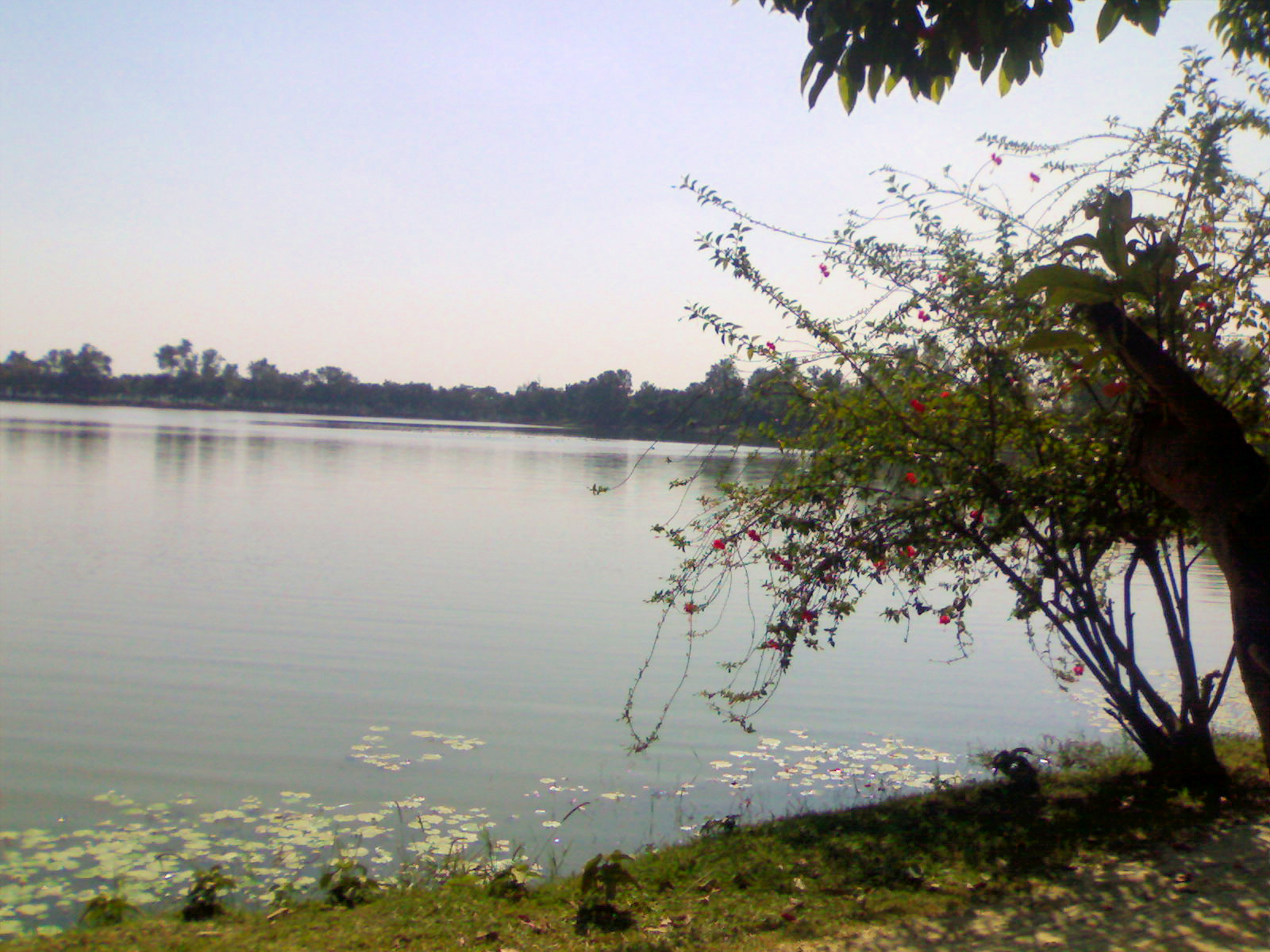 Nilsagar, Nilphamari. A historical place of Bangladesh